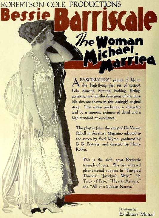 Ad for the American film The Woman Michael Married (1919) with Bessie Barriscale, on page 1592 of the August 23, 1919 Motion Picture News.